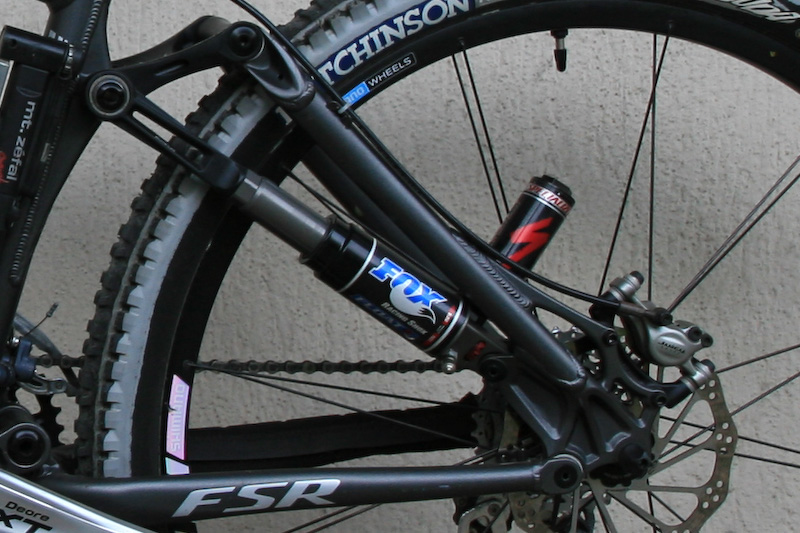 Zoom on the specific 'Brain' implementation on a Specialized Epic Comp 2004